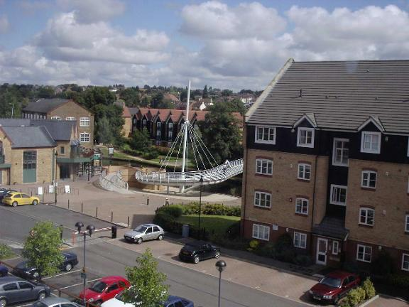 Pedestrian Footbridge at Apsley View from the 4th floor of Hemel Hempstead´s Express by Holiday Inn